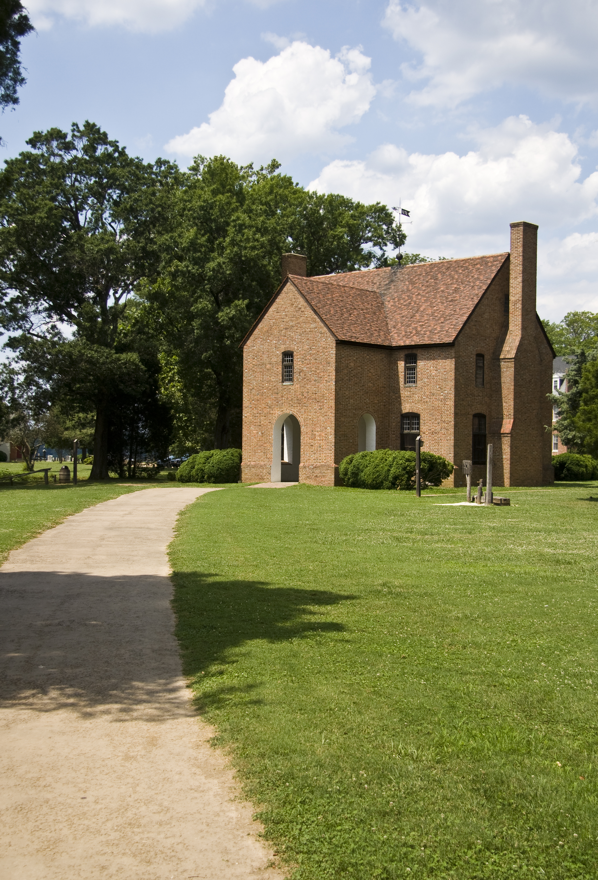 Reconstructed (1934) State House in St. Mary's City, Maryland, USA, the first capital of Maryland